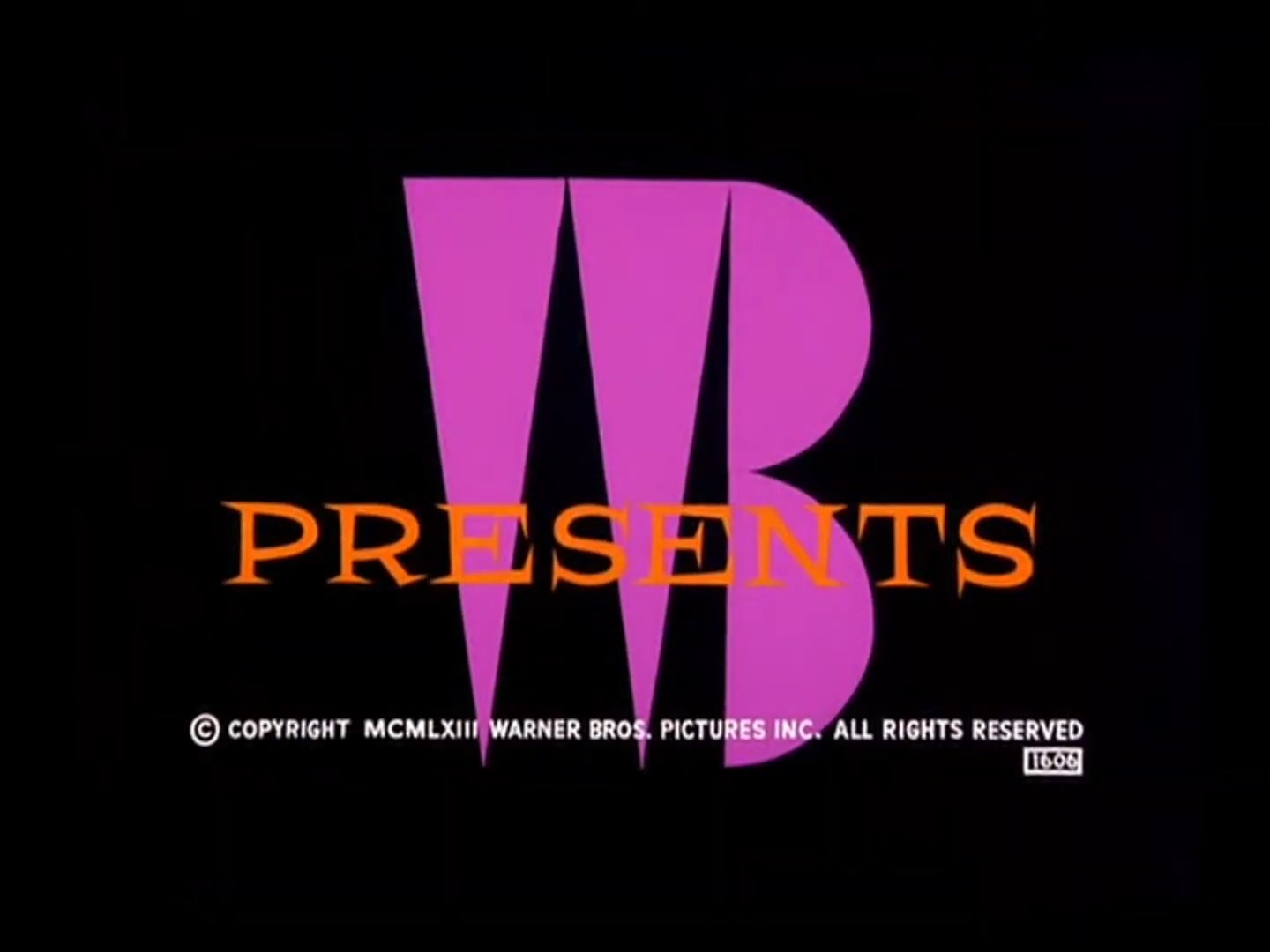 The abstract WB logo used for the Looney Tunes series in the 1960s.